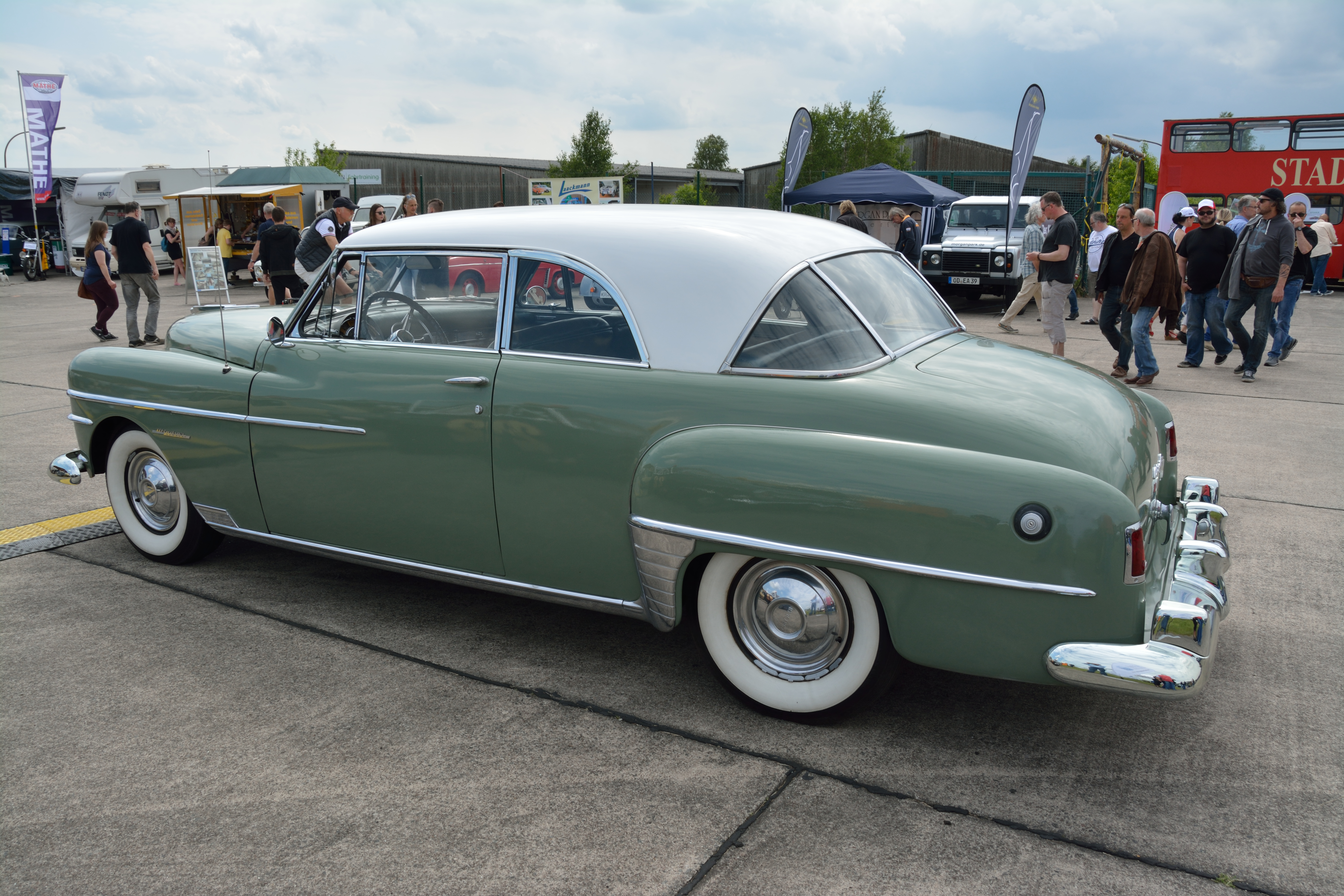 1950 Chrysler Windsor Newport coupe (C48W)